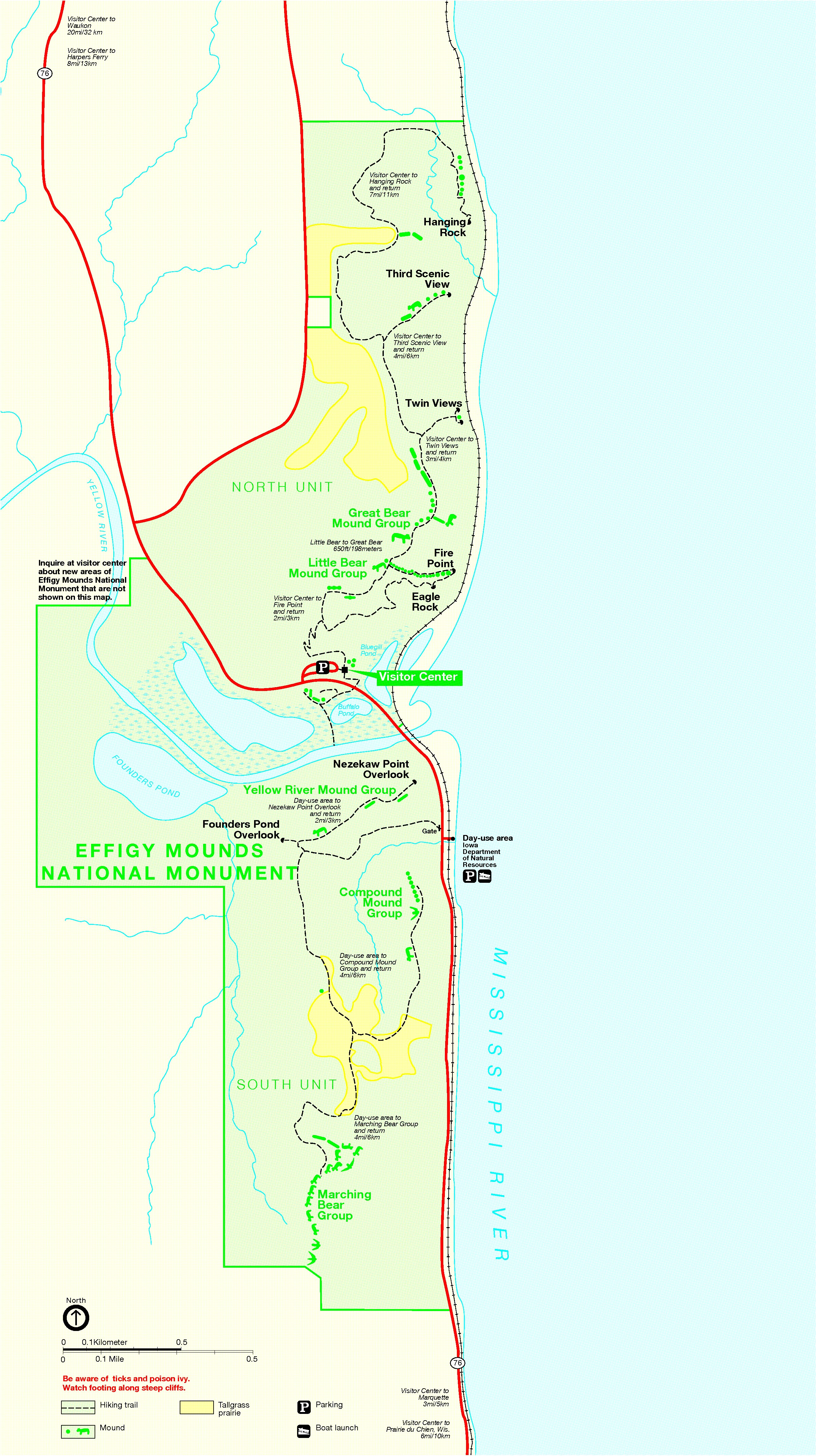 Map of Effigy Mounds National Monument, Iowa, USA